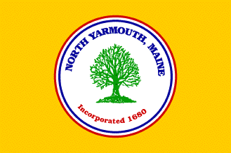 The official town flag of North Yarmouth, Maine, created in September 1980.